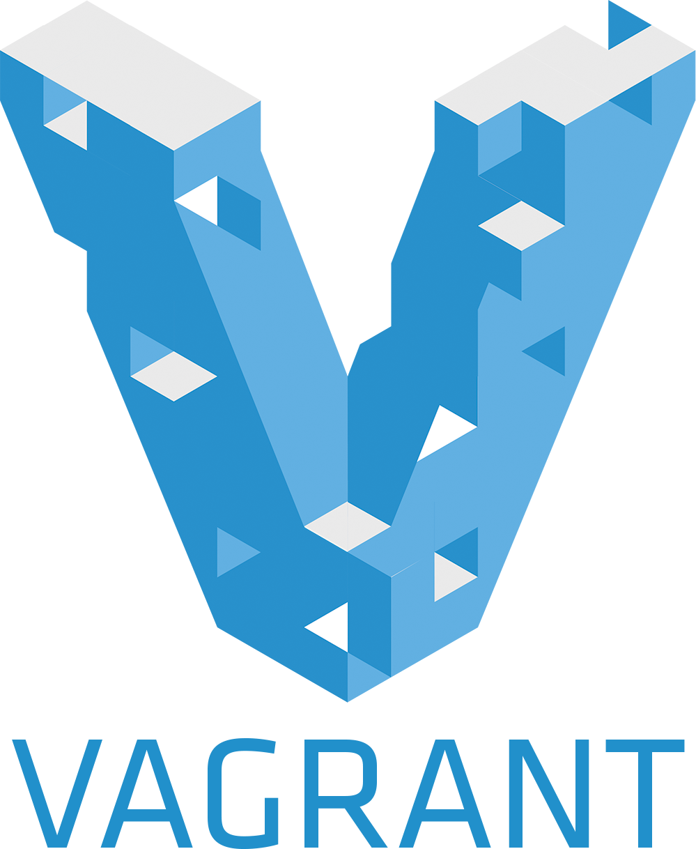 Vagrant Logo